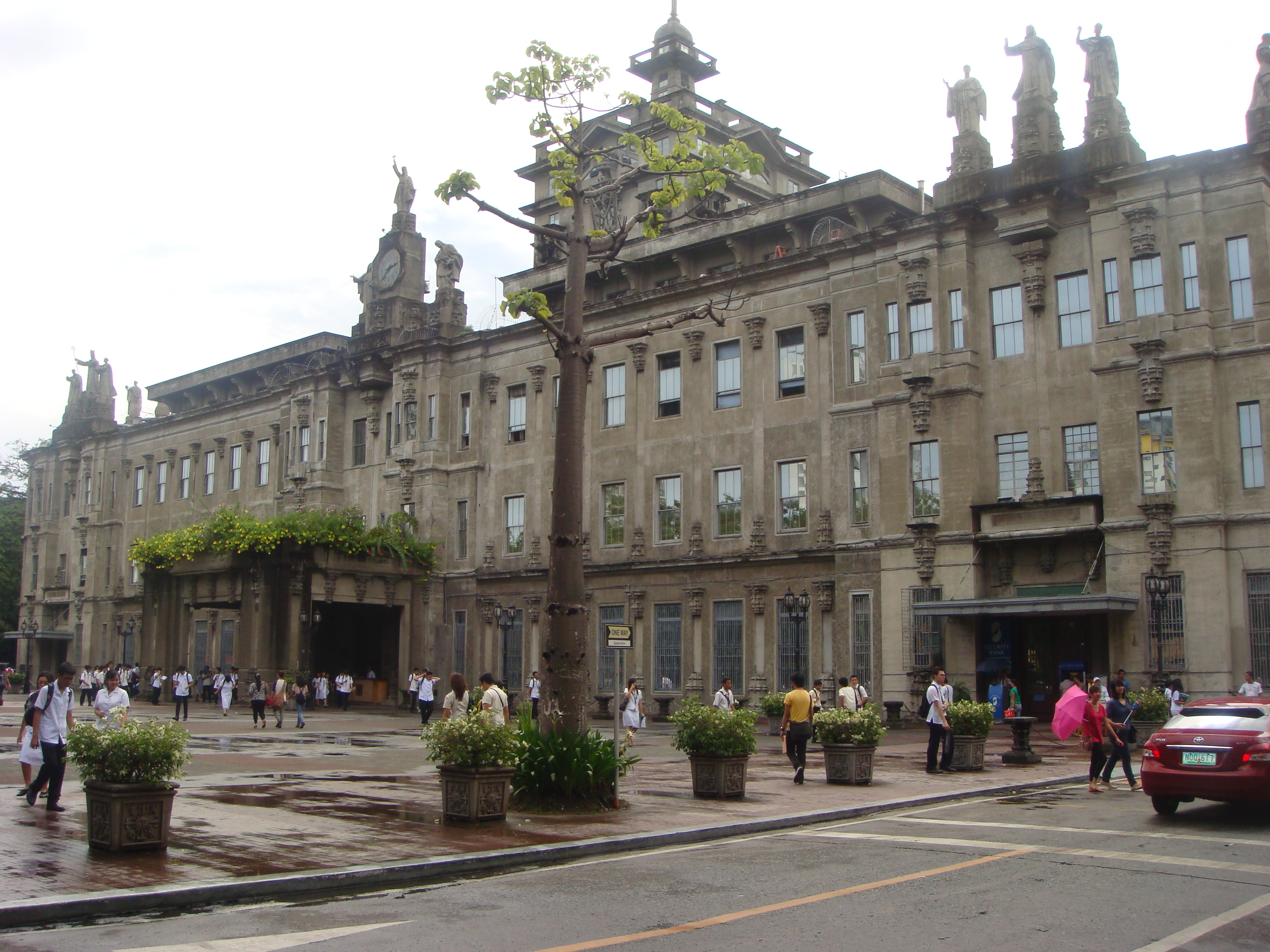 UST Main Building